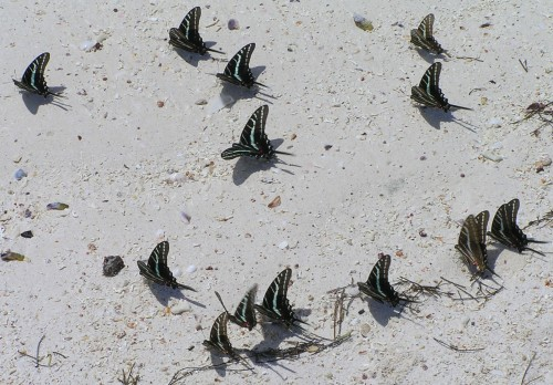 Protographium philolaus - Location: Mexico: E Yucatán, near Tulum